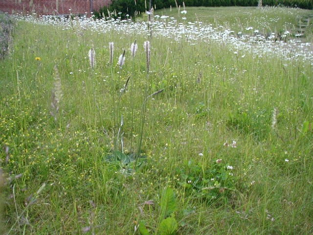 An artficially landscaped meadow with a composition of species that respects the local situation